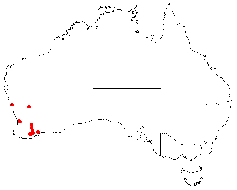 Bossiaea peduncularis Occurrence data downloaded 11 September 2018 from AVH